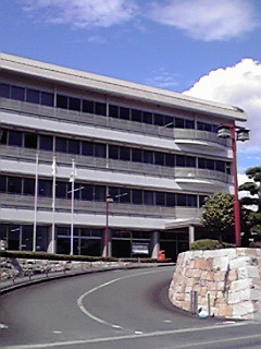 This is the building of Shima City Hall Shima Branch. It was Shima town office.